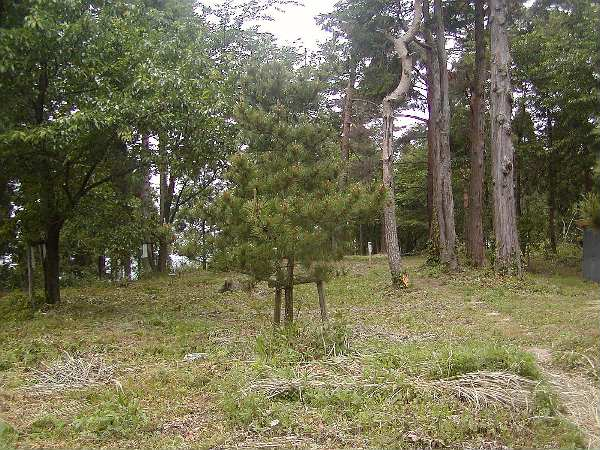 Suemori Castle photo by Akimoto